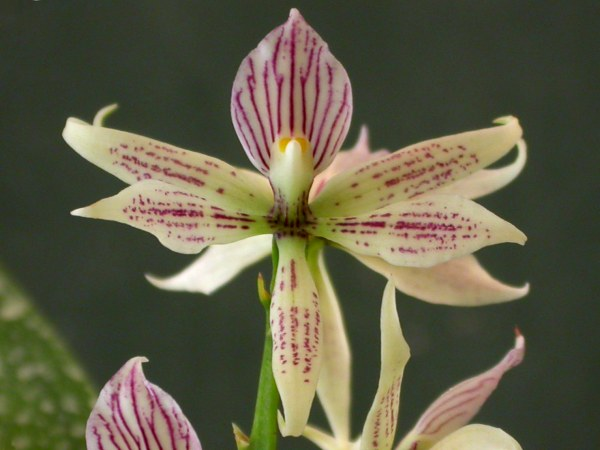 Anacheilium terassanianum